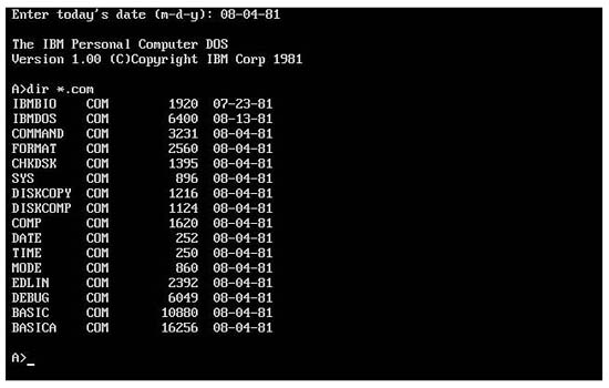 IBM PC DOS 1.0 Screenshot.